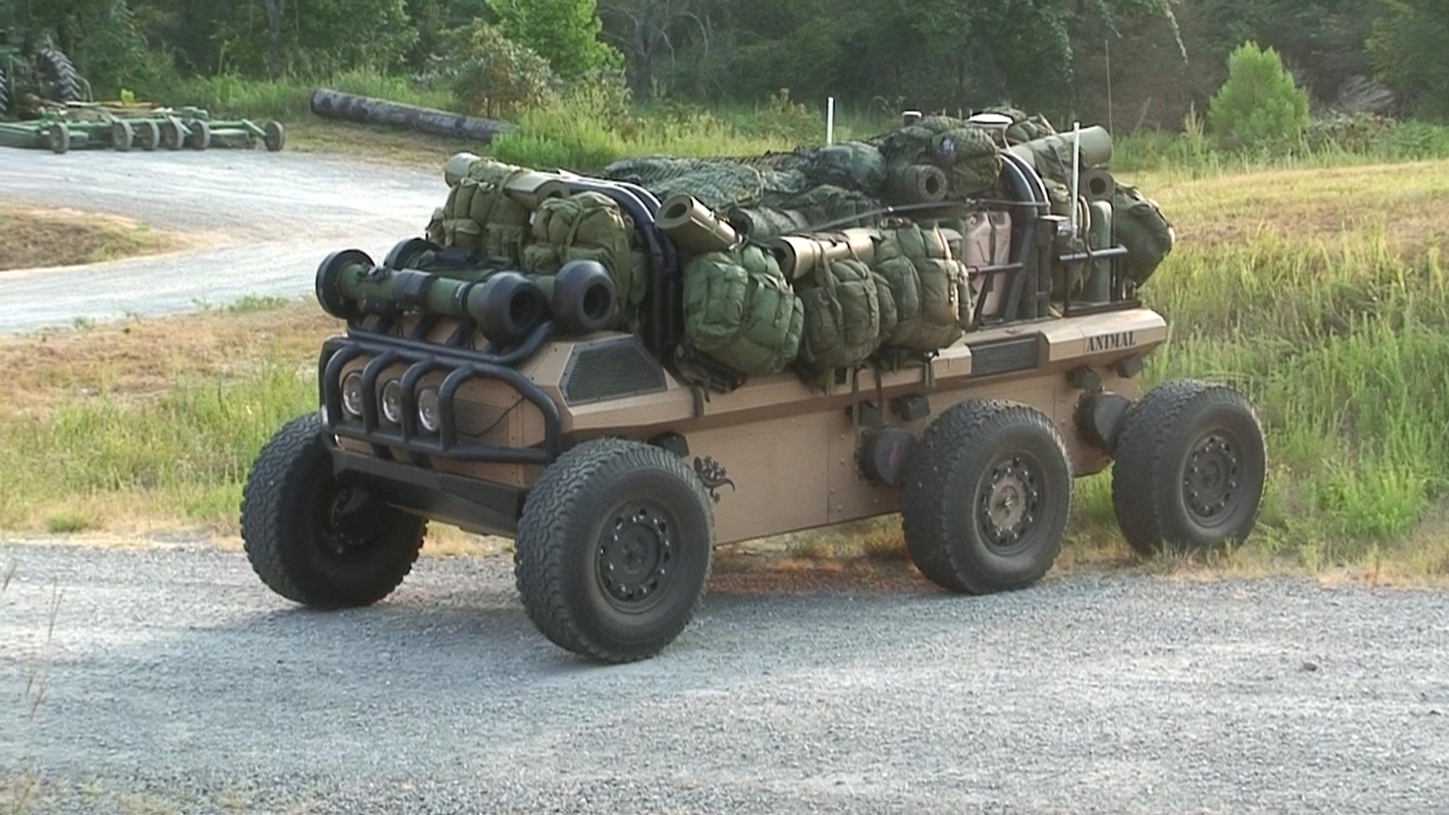 XM1217 Multifunctional Utility/Logistics and Equipment, Transport version (MULE-T)